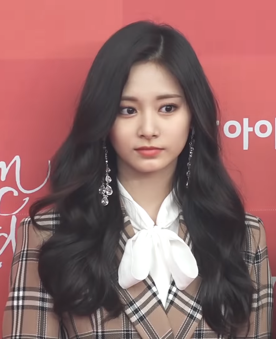 Tzuyu at the Golden Disc Awards 2019 in Seoul.